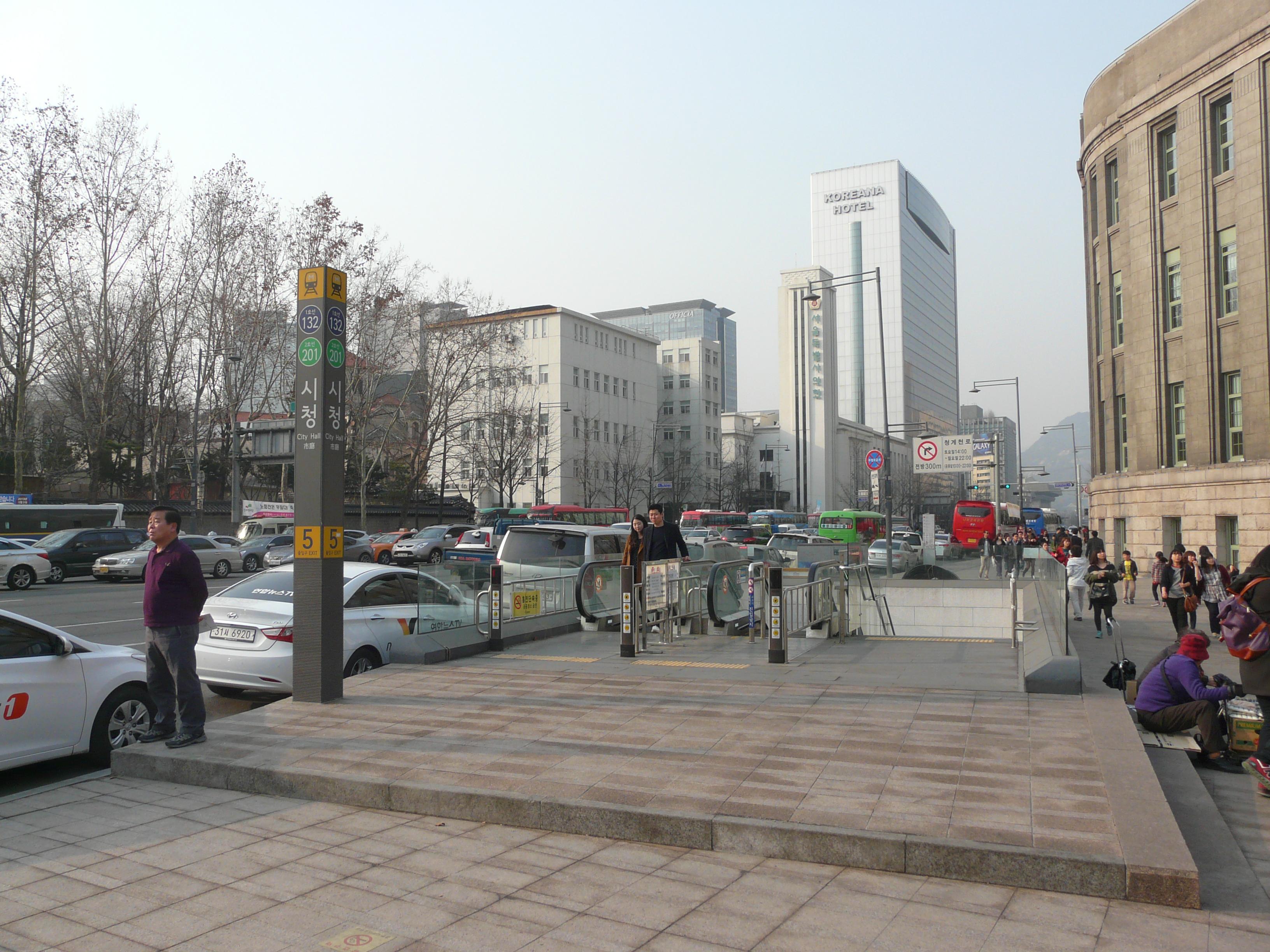 A entrance (No.5) of Seoul City Hall Station